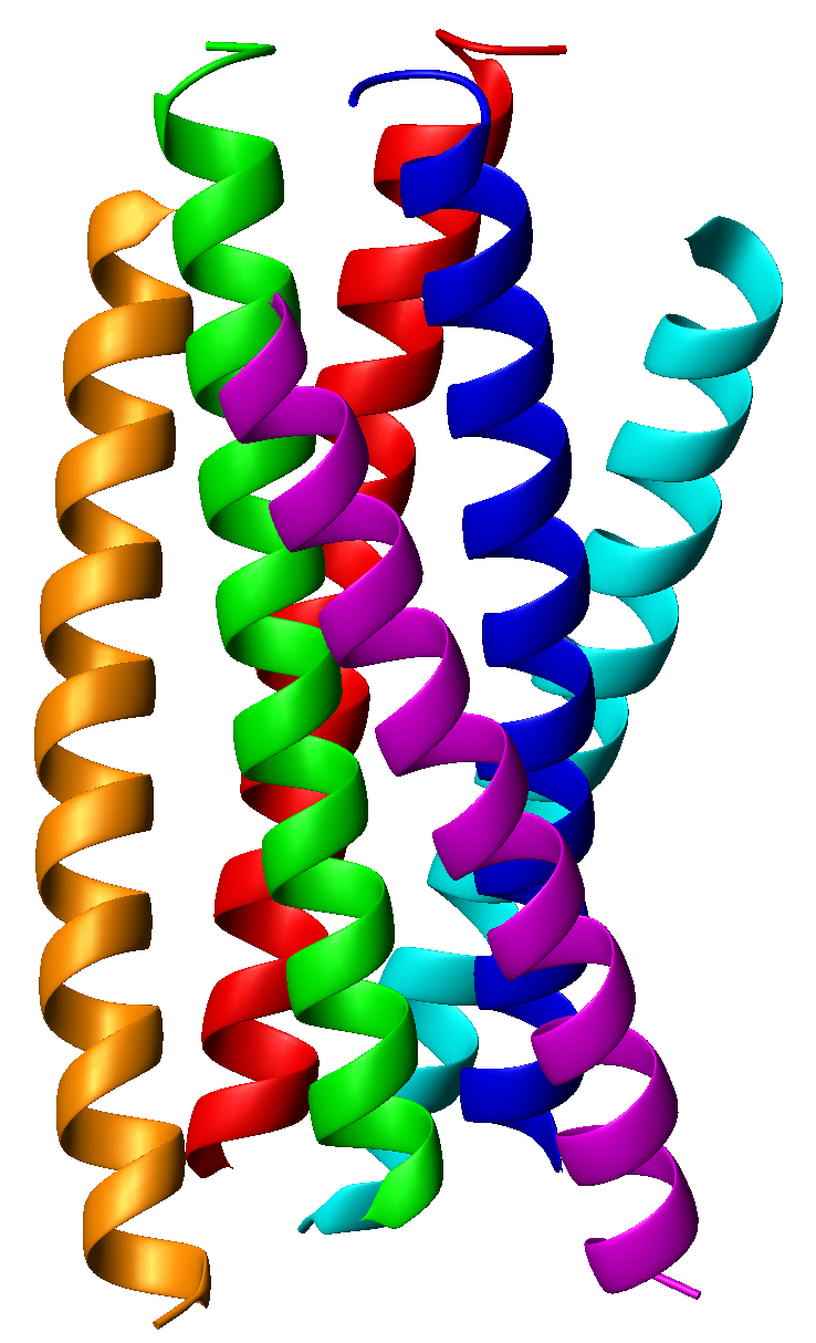 Side-view rainbow ribbon diagram of a gp41 construct, a parallel coiled-coil hexamer, a trimer surrounded by three other helices in the grooves (Protein Data Bank accession code 1aik). The six chains are colored to distinguish them; the ribbons of the core trimer are colored red-green-blue, while the outer helices are colored gold, cyan and magenta. This is my own work, made with MOLMOL on 8 September 2006, and licensed under the GFDL.